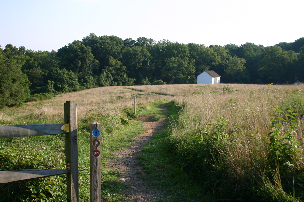 The Bryan's Field trailhead of White Clay Creek State Park, DE, USA, as seen from the Possum Hill Area parking lot. Taken: 8/9/2004 Photographer: Ken Cox